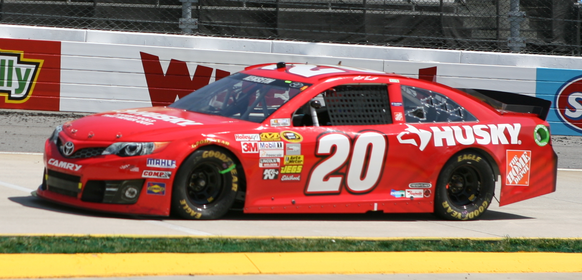 Matt Kenseth's No. 20 Husky Tools Toyota at Martinsville Speedway in 2013